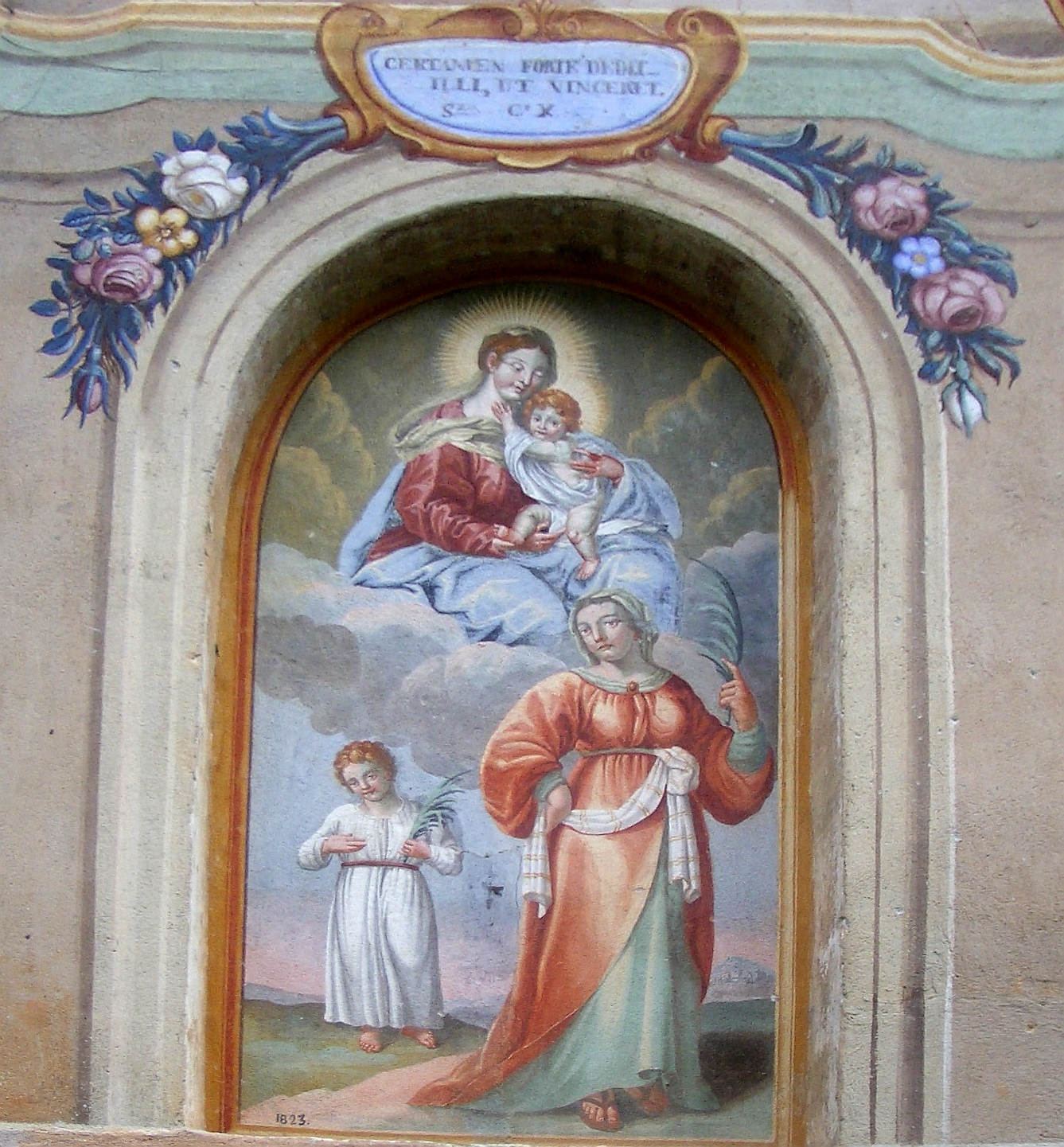 Giovanni Piccina, Saints Quirico and Julitta fresco, 1823, Oratory of San Quirico, Boccioleto, frazione di Palancato, Vercelli, Italy